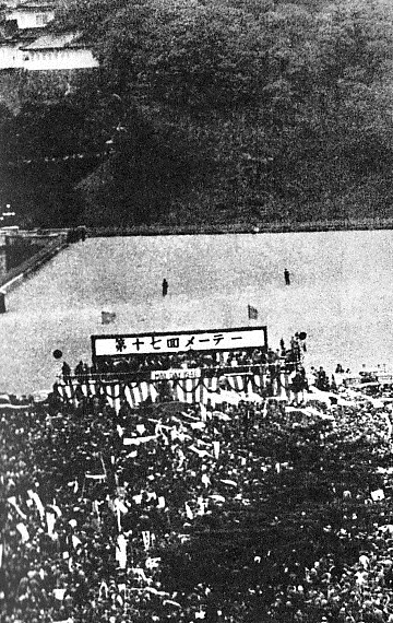 17th Labor Day in Japan